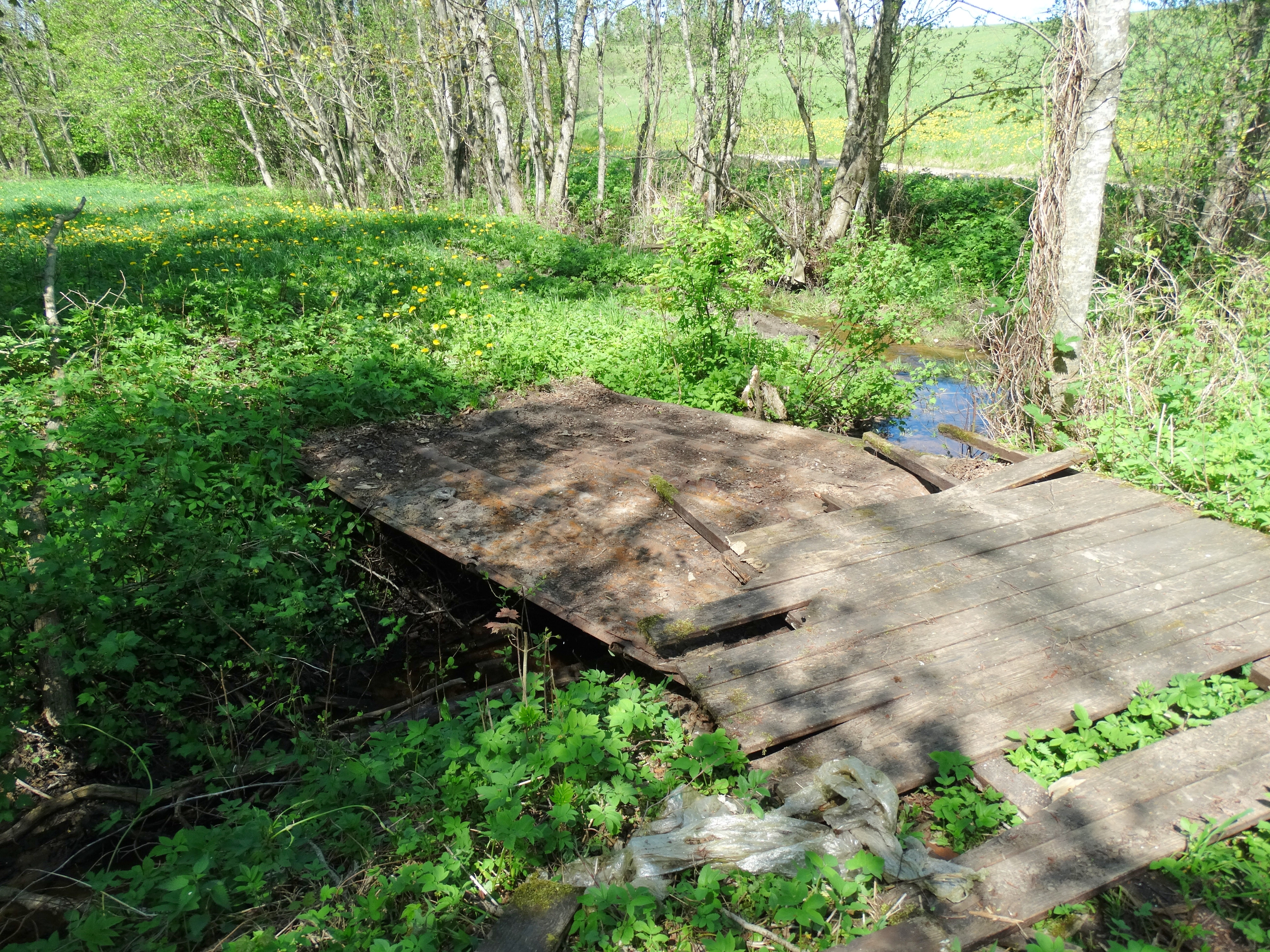 Juodiša stream, Molėtai district, Lithuania